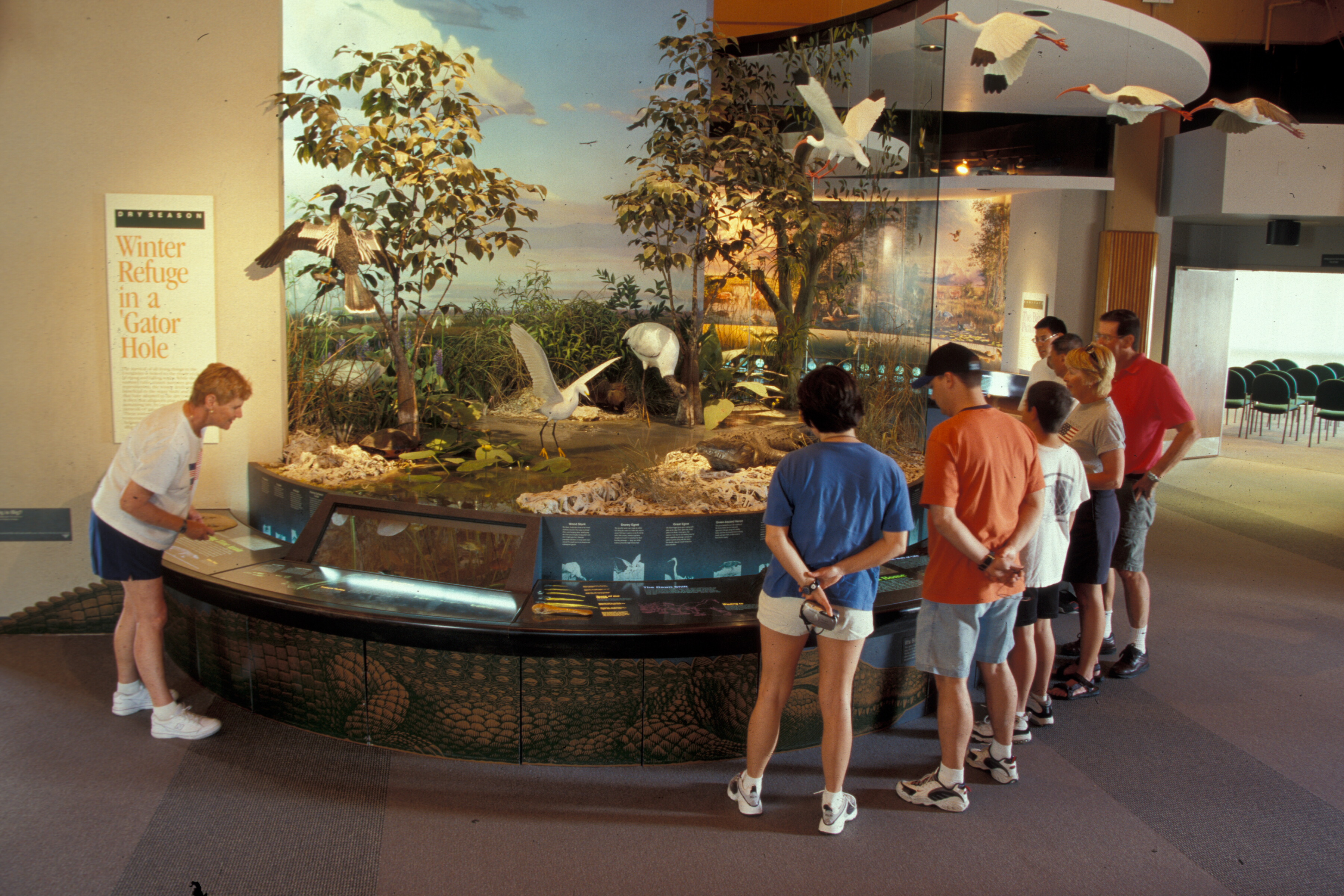 Ernest F. Coe Visitor Center, NPSPhoto